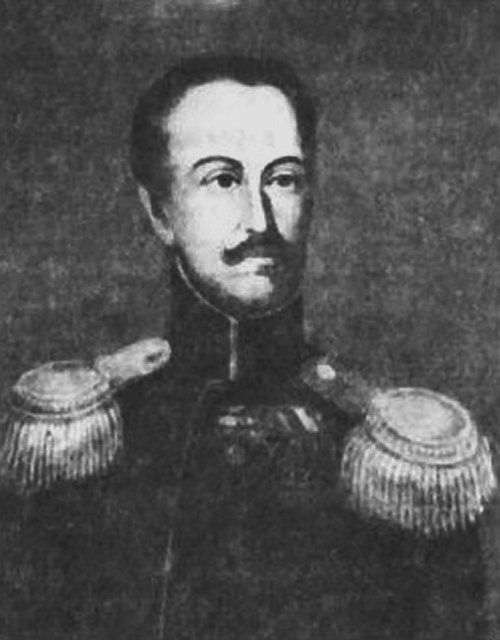 Pavel Alexandrovich Katenin Russian poet and dramatist